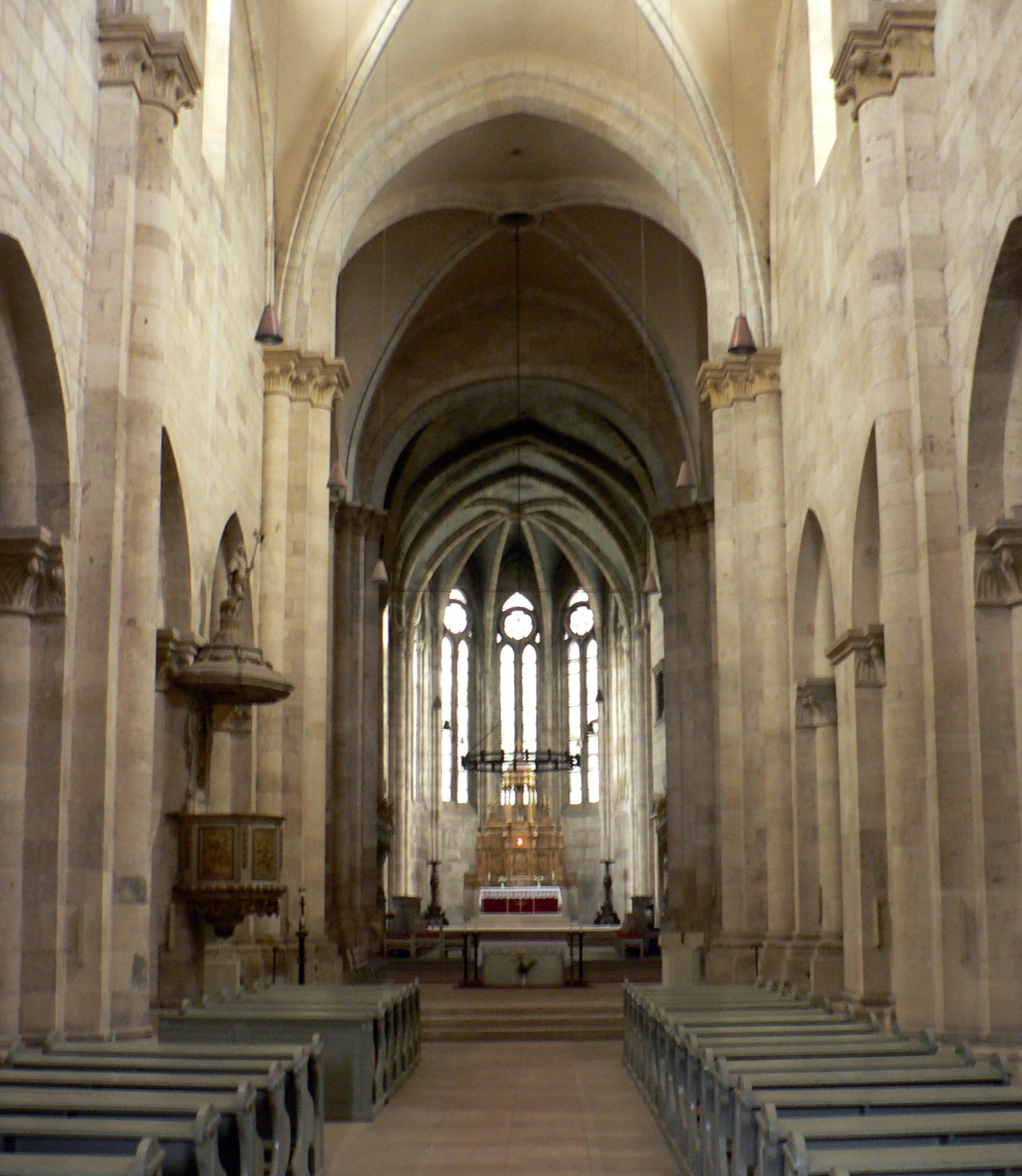 Roman Catholic cathedral in Alba Iulia